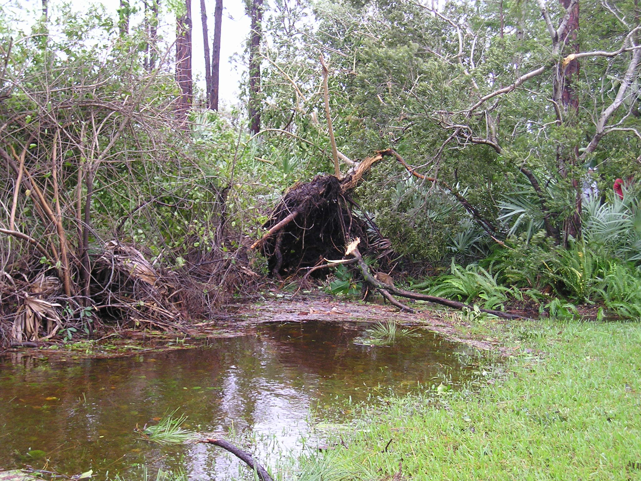 Example of Hurricane Wilma's Force.